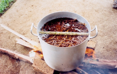 Banisteriopsis caapi cooking over an open fire